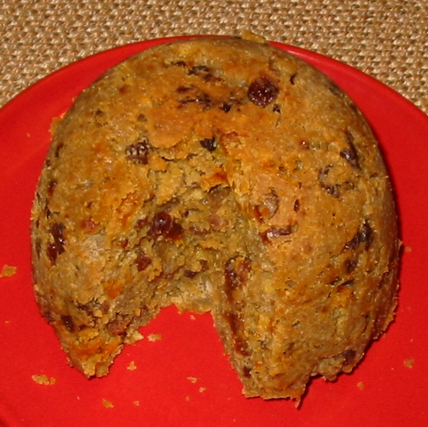 Christmas pudding, traditional Jersey recipe